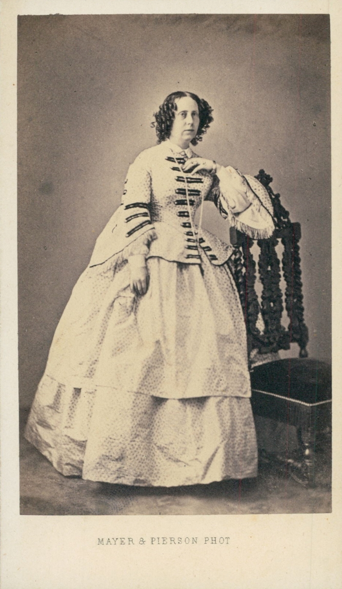 Sophie of the Netherlands